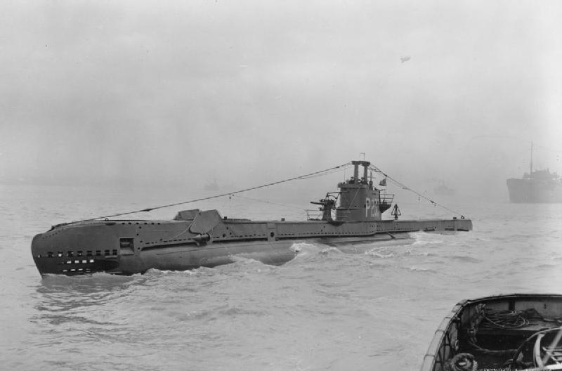 British S class submarine HMSM STUBBORN underway.